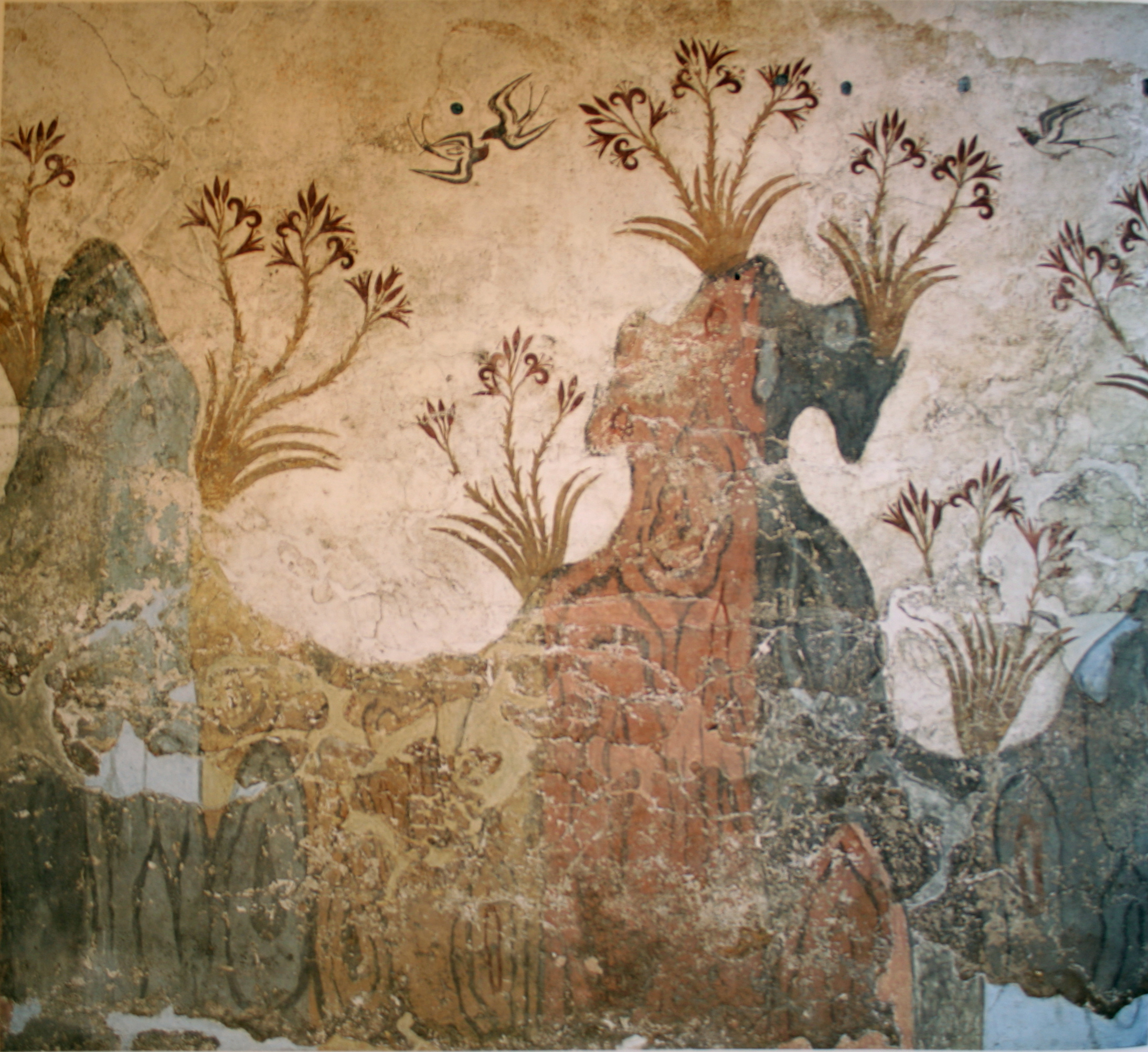 Spring fresco, from Akrotiri, Greece. Now in the National Archaeological Museum of Athens.